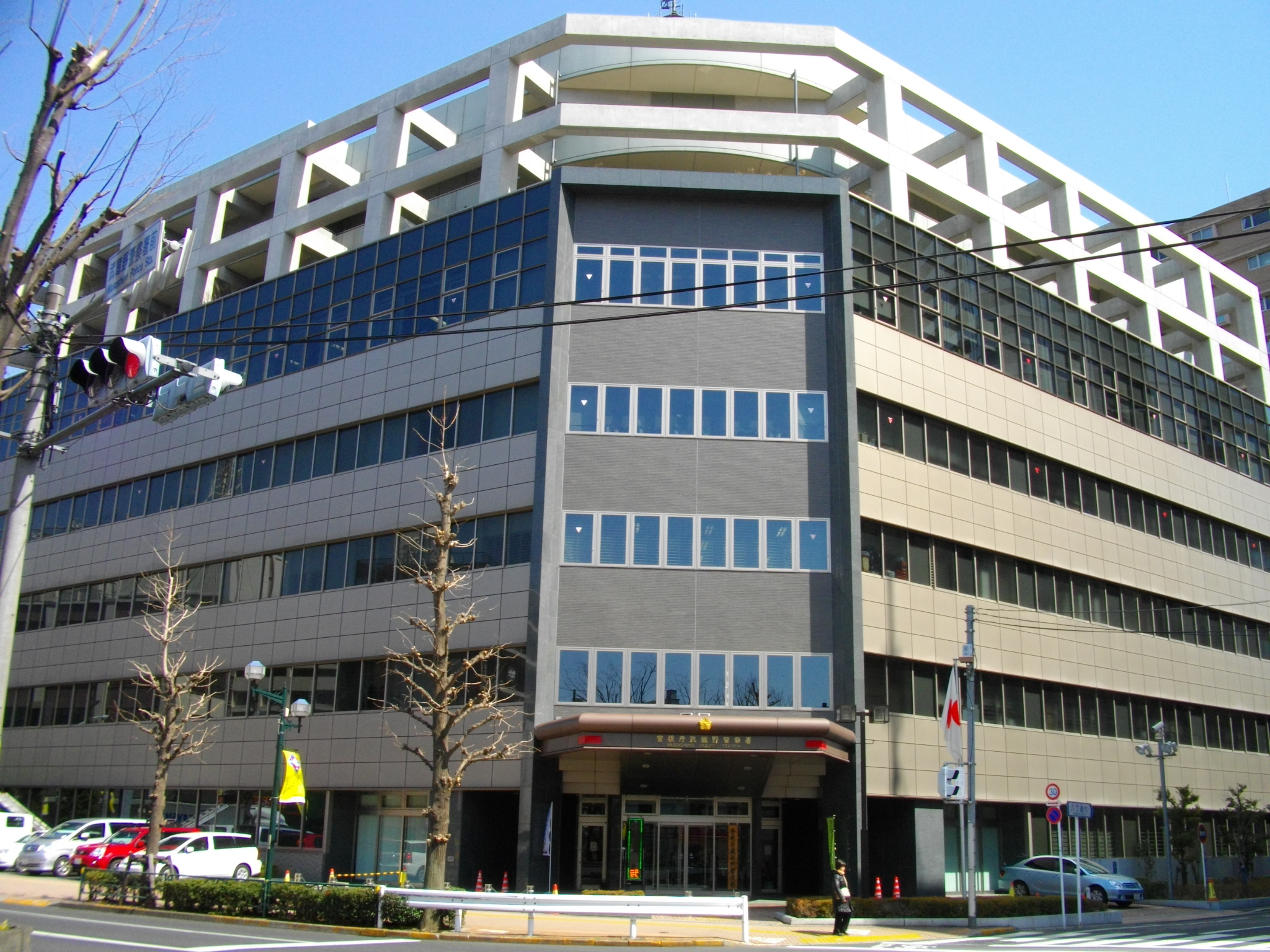 Musashino Police Station